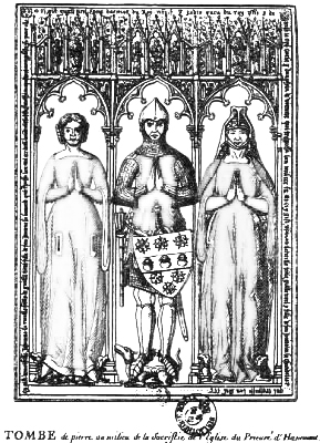 Tomb of Guillaume Tirel and his two wives. Image extracted from the works of Baron Jérôme Pichon et Georges Vicaire (Paris, Techener, 1892). Black&white version of File:Tombe Guillaume Tirel.jpg.